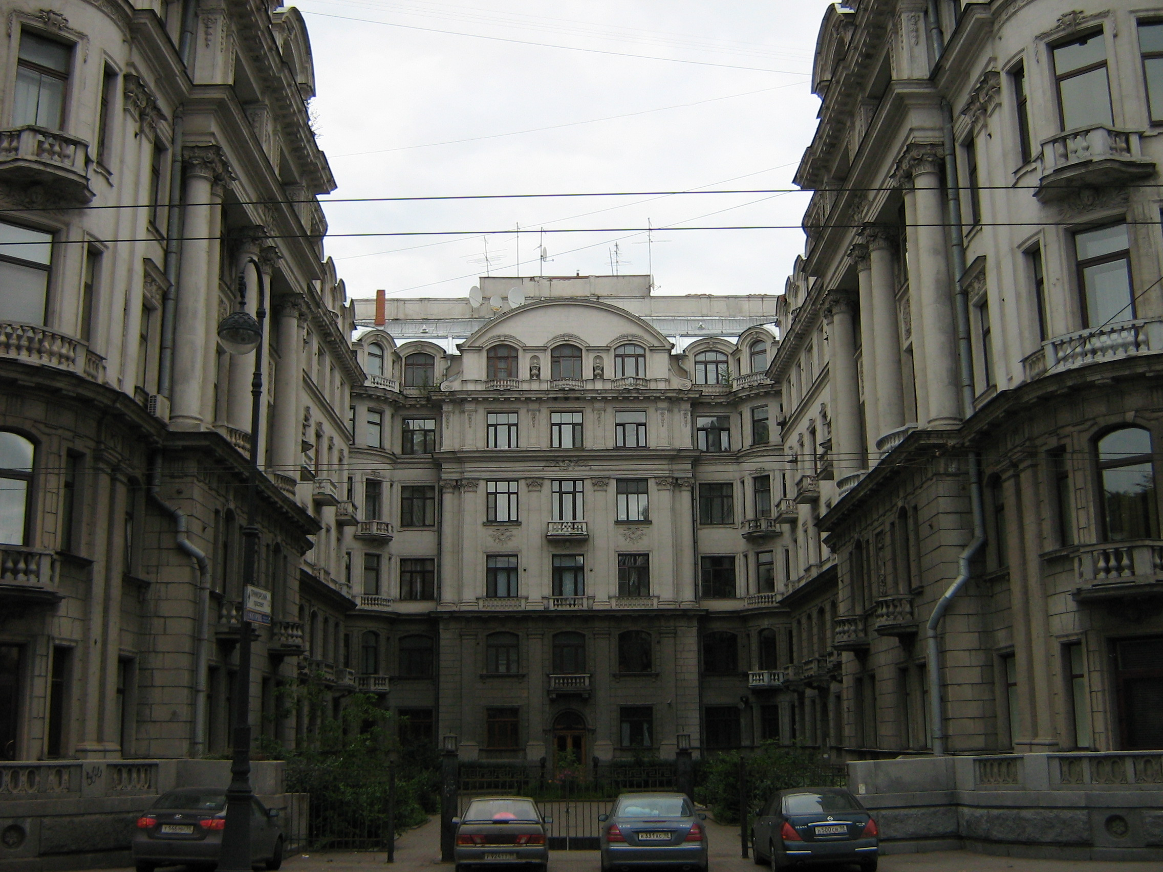 73-75, Kamennoostrovsky Prospekt, Saint-Petersburg, Russia. Architects A.I. Zazersky and I.I.Yakovlev, 1913.